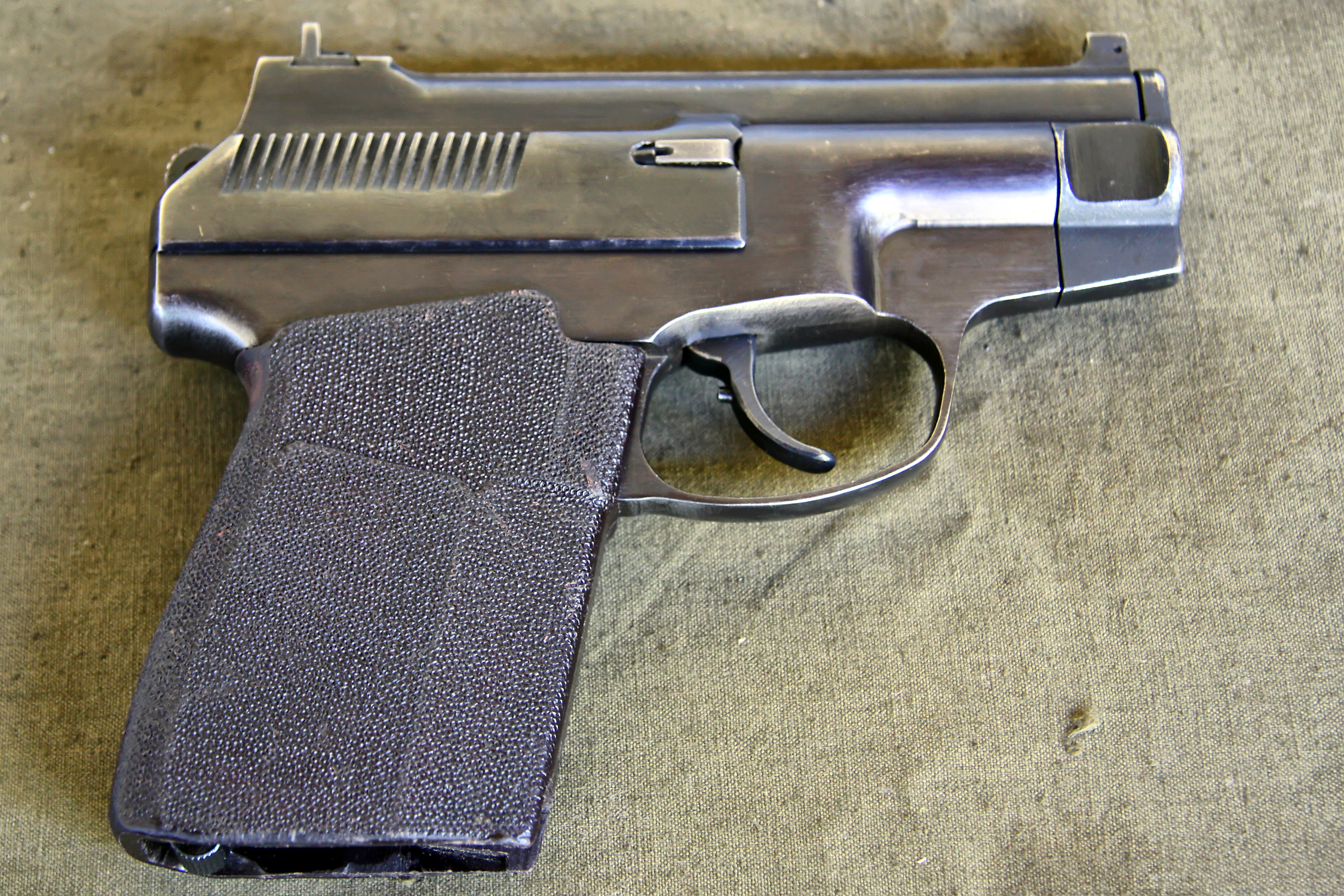 6P28 PSS Vul silent pistol - OSN Saturn